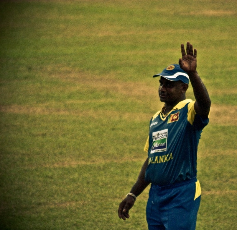 Sri Lankan Cricketer Sanath Jayasuriya